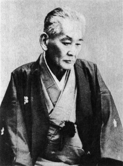 Isaniwa Yukiya, mayor of Dogo, 1890s.